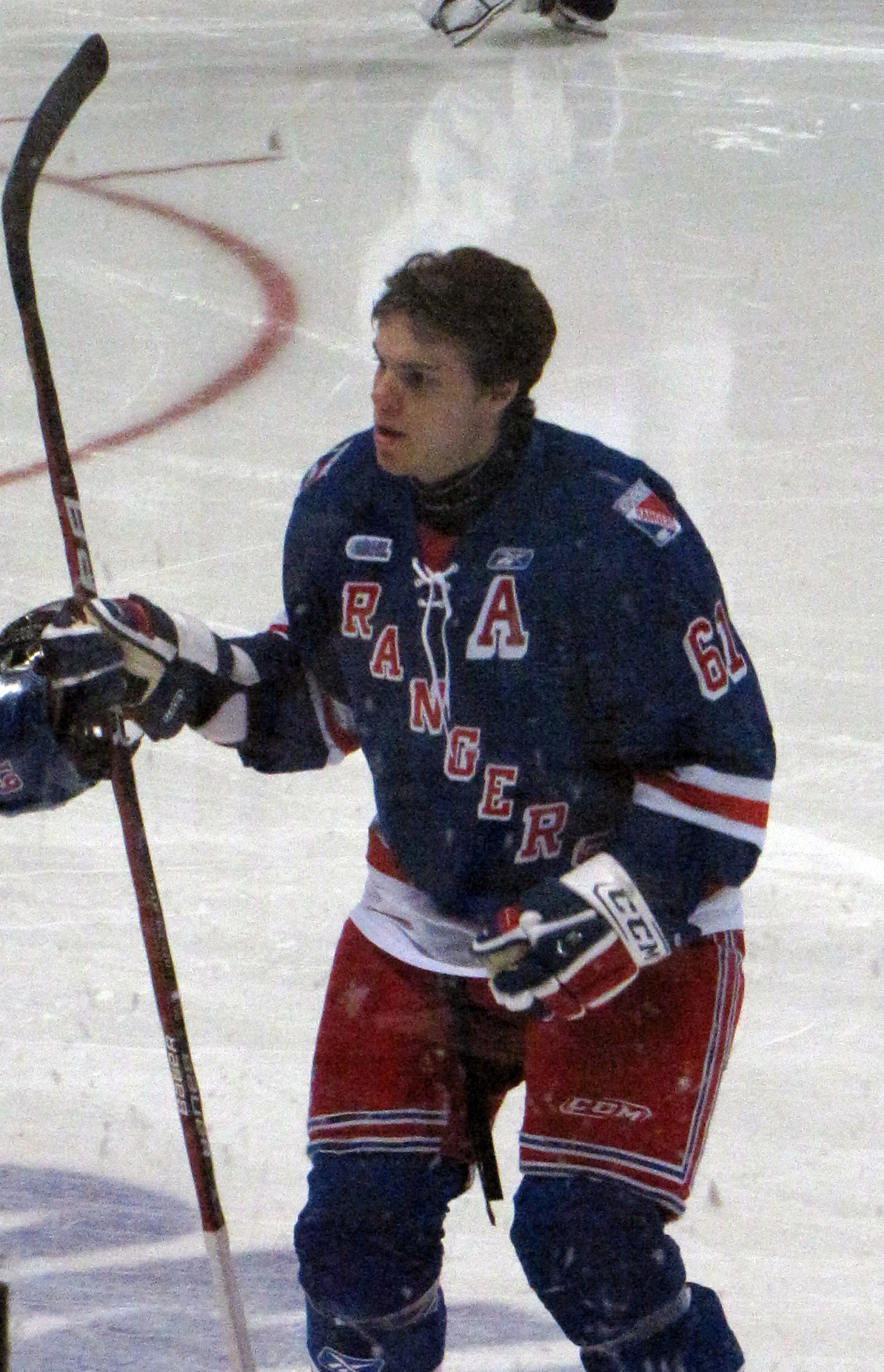 Jeremy Morin as a Kitchener Ranger in preseason action